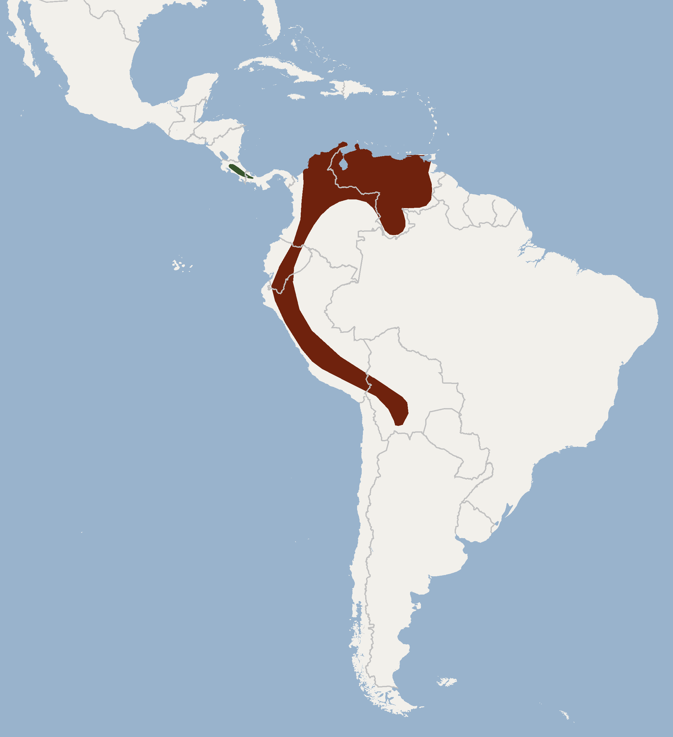 According to Reid, 2008 and Gardner, 2008. Subspecies range: M.o.oxyotus in brown, M.o.gardneri in green.